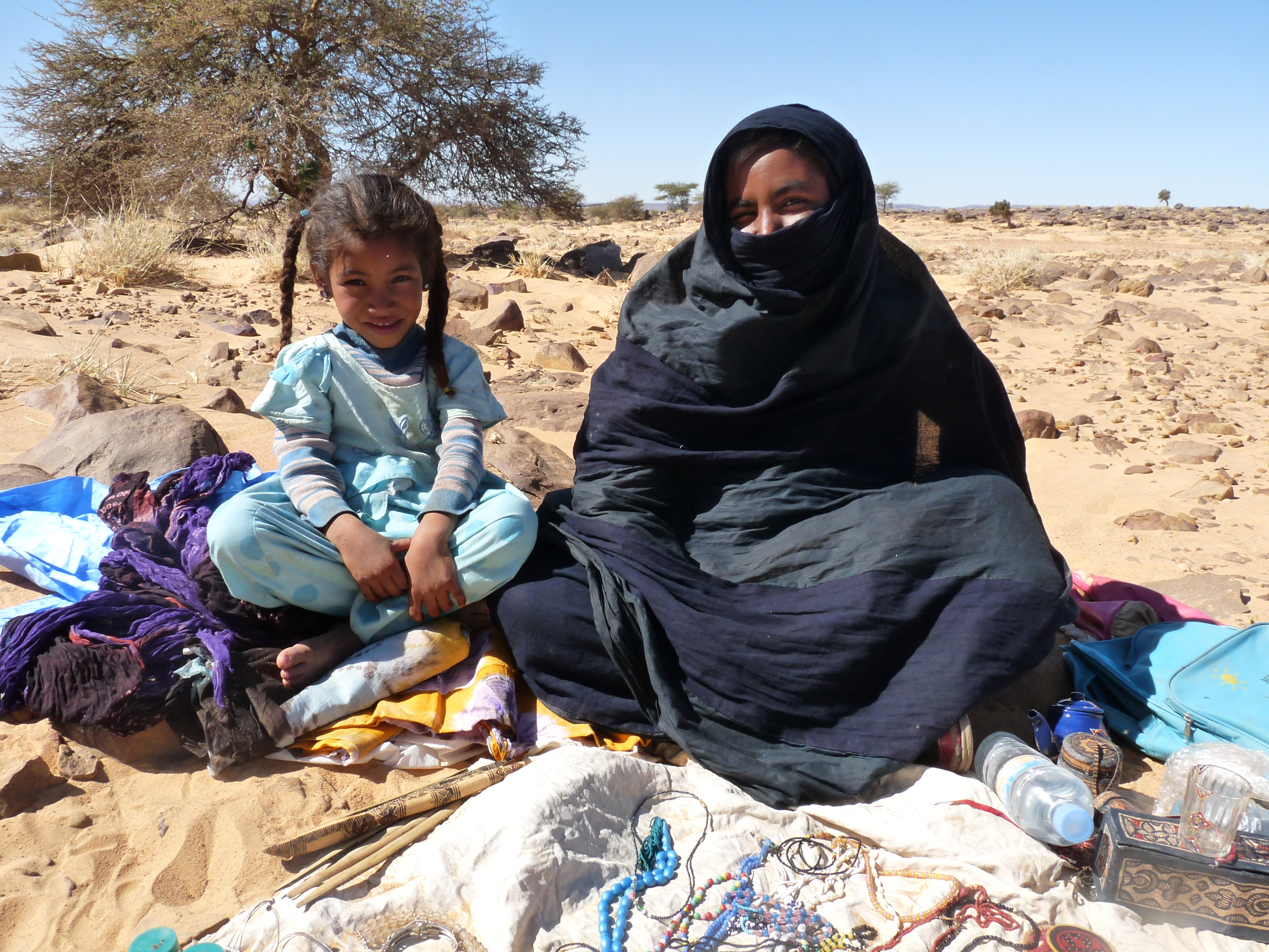 Mother and daughter selling handicraft in Adrar (Mauritania)